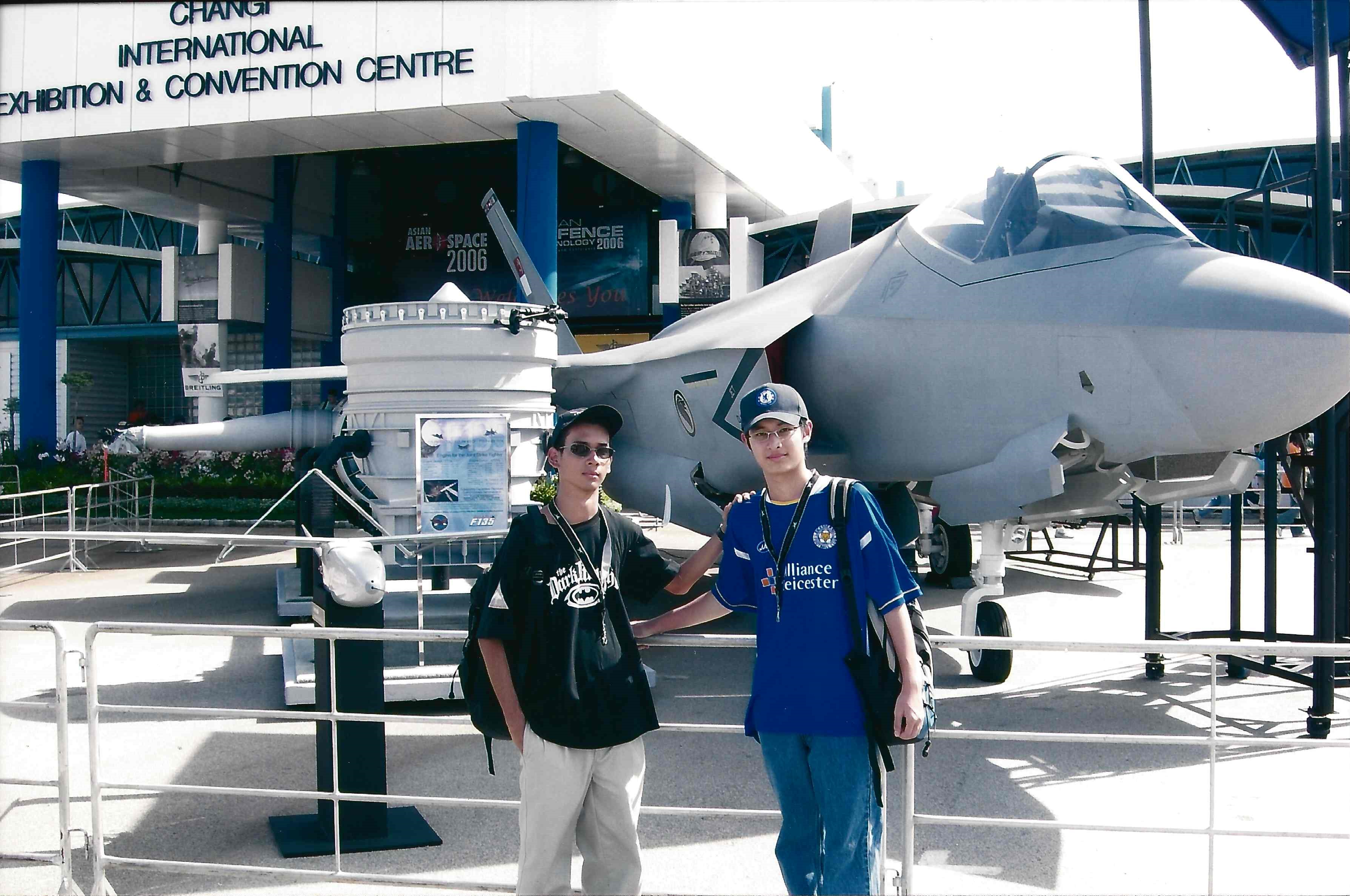 A mockup F-35 in RSAF markings at the Changi International Exhibition & Convention Centre during Asian Aerospace 2006.